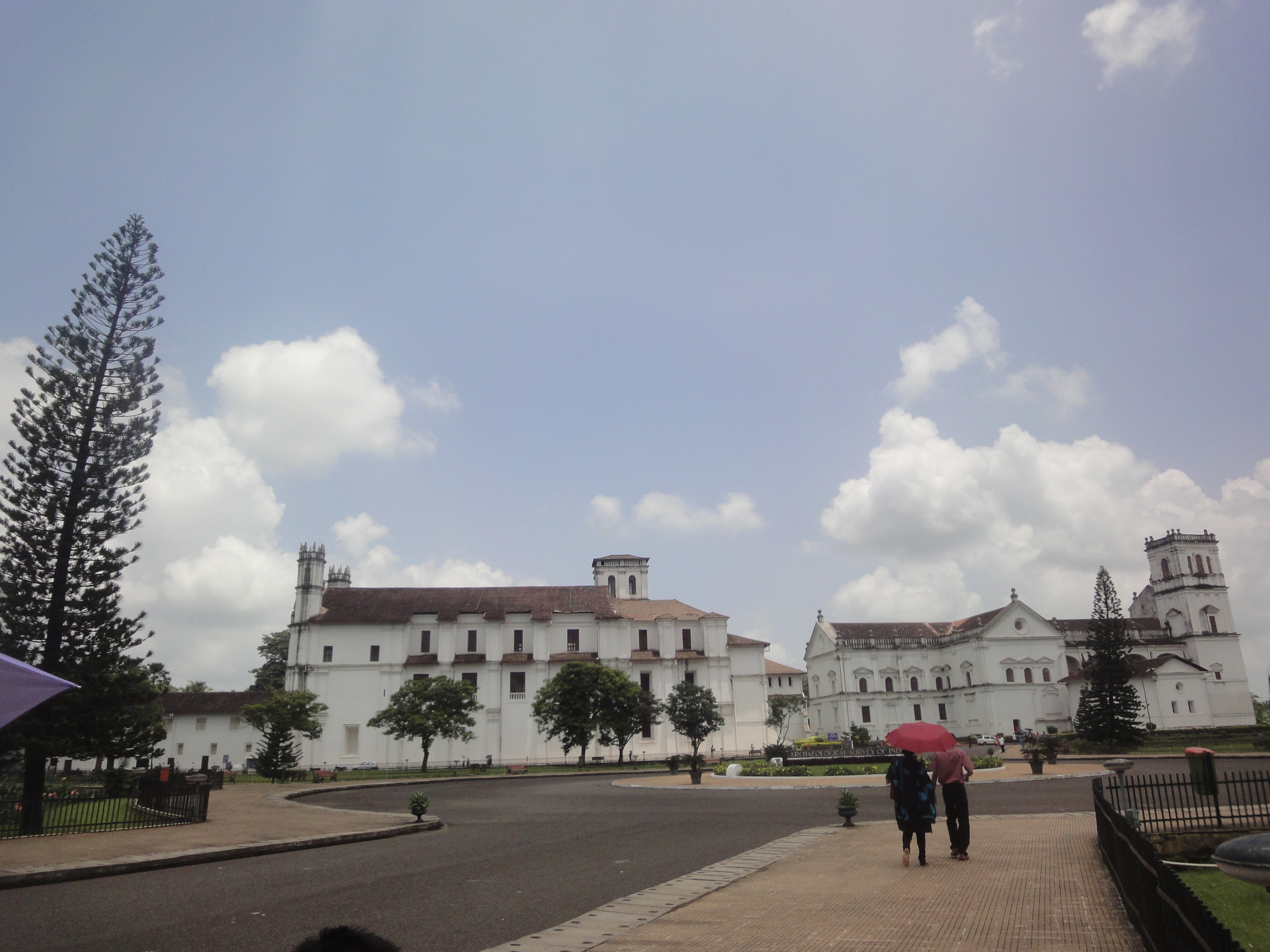 Se’ Cathedral